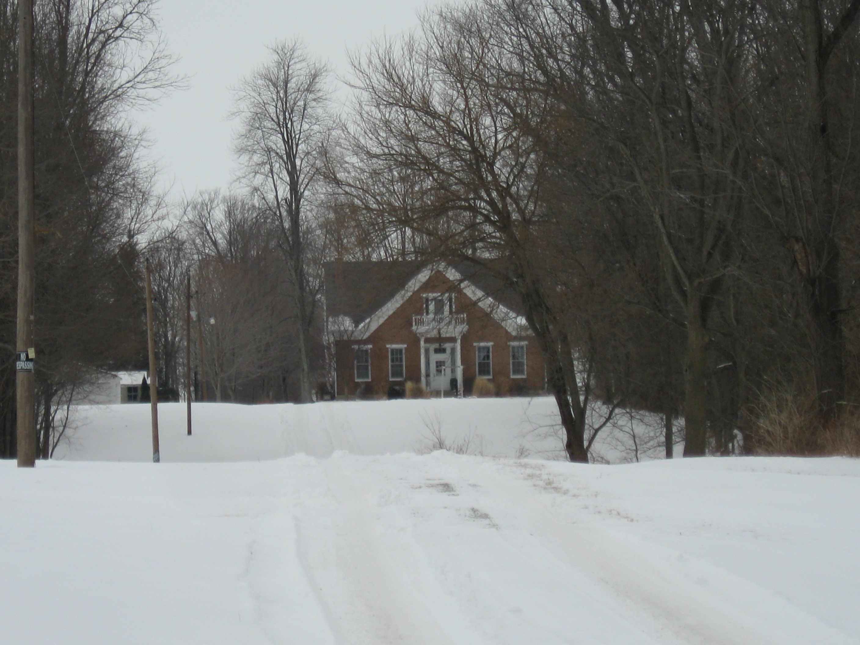 Roadside view of the Henry W. Smith House, located at 5300 W. Road 0 west of Kokomo in southwestern Clay Township, Howard County, Indiana, United States. Built in 1859, it is listed on the National Register of Historic Places.